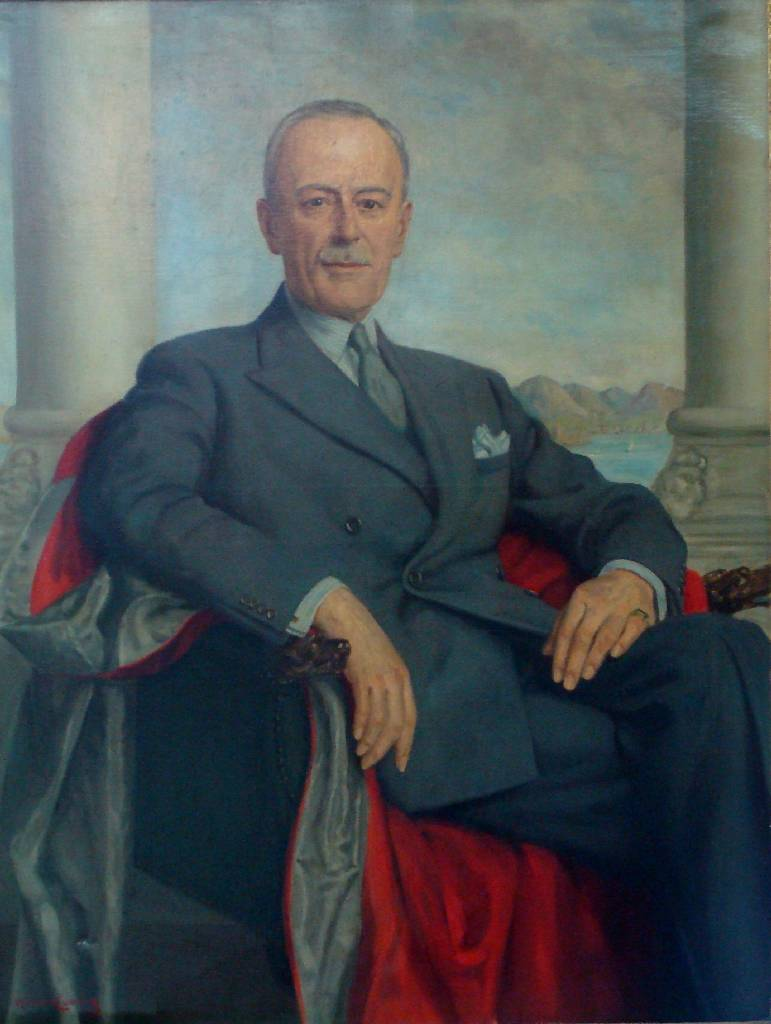 Philip Pandely Argenti (1891-1974), lawyer, Greek diplomat and historian of the island of Chios